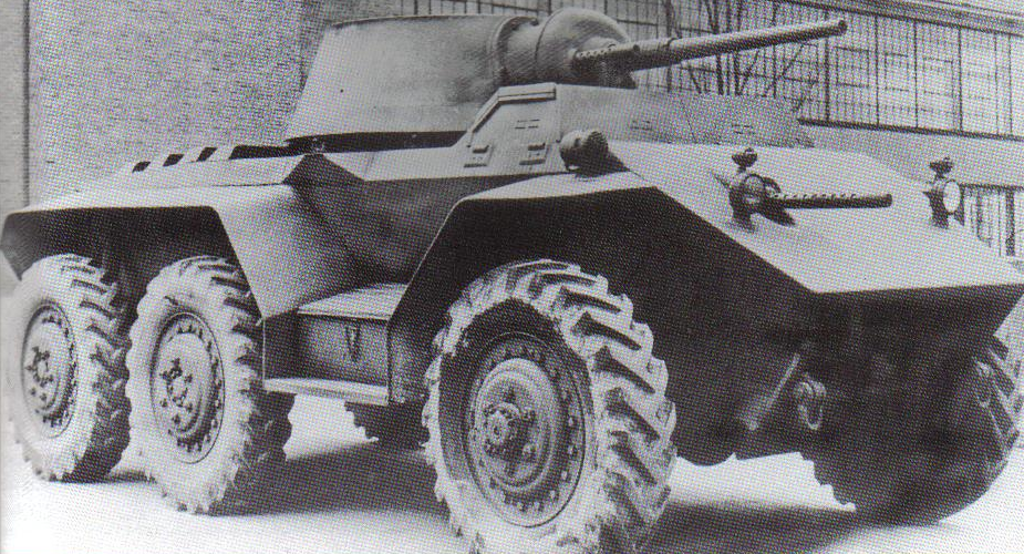 Armored Car T22 (M8) pilot